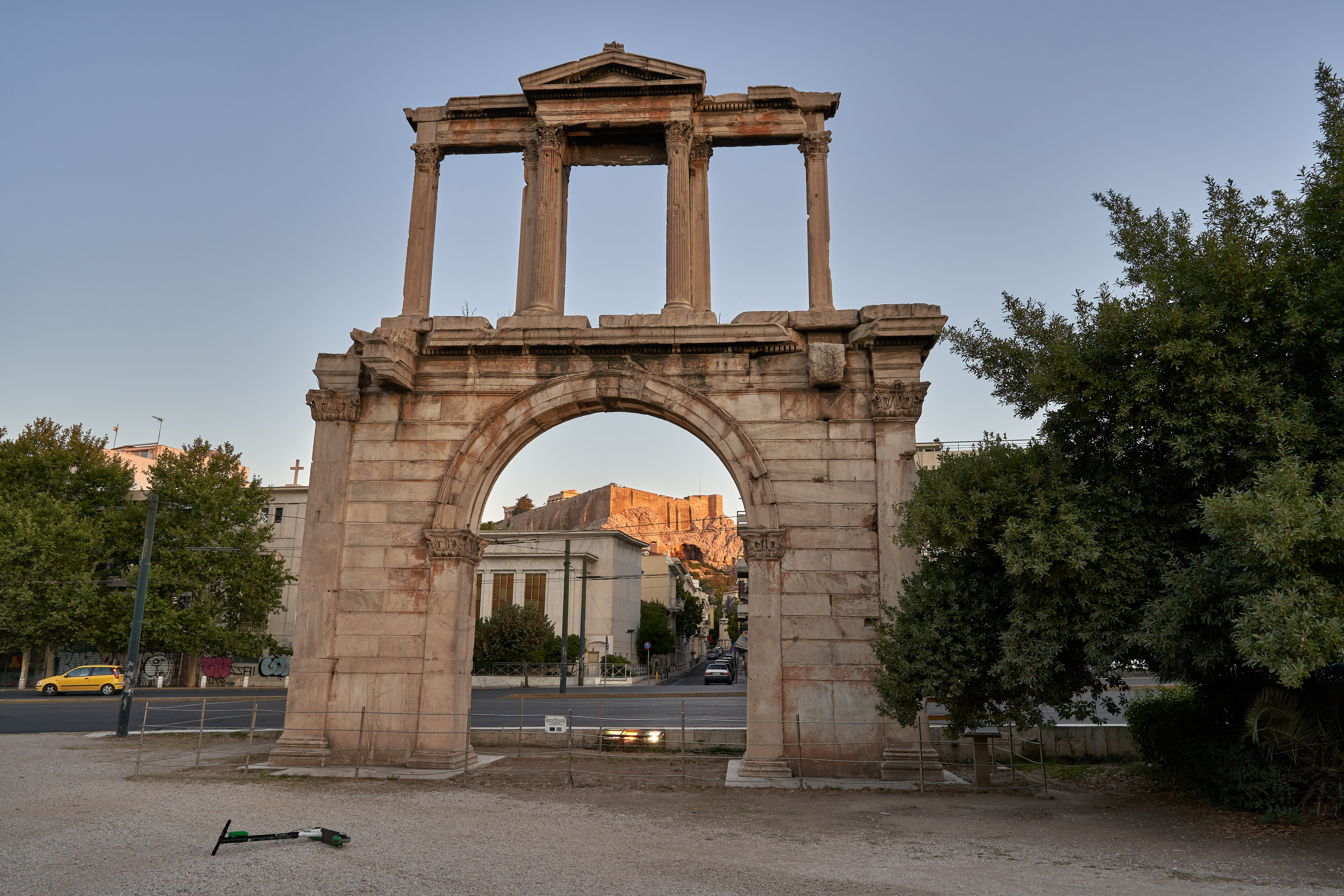 The Arch of Hadrian and the Acropolis on July 21, 2019.